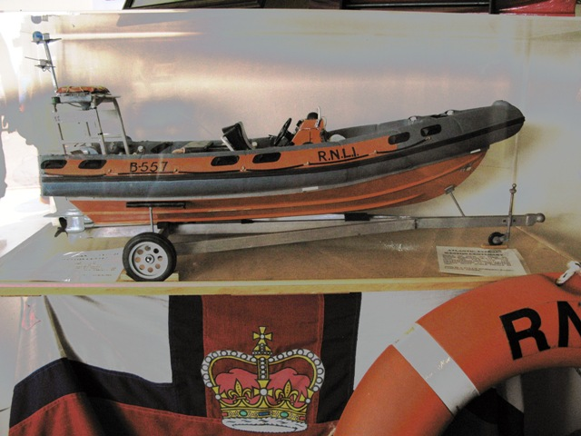 A model of Atlantic 21 class lifeboat B557 Weston Centenary on display at the RNLI boat house, Anchor Head, Weston-super-Mare, North Somerset, England.